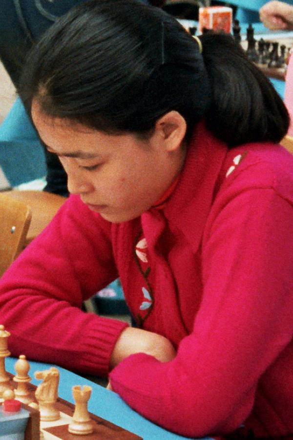 Liu Shilan, Chess Olympiad 1982 in Luzern, Photographer Gerhard Hund.